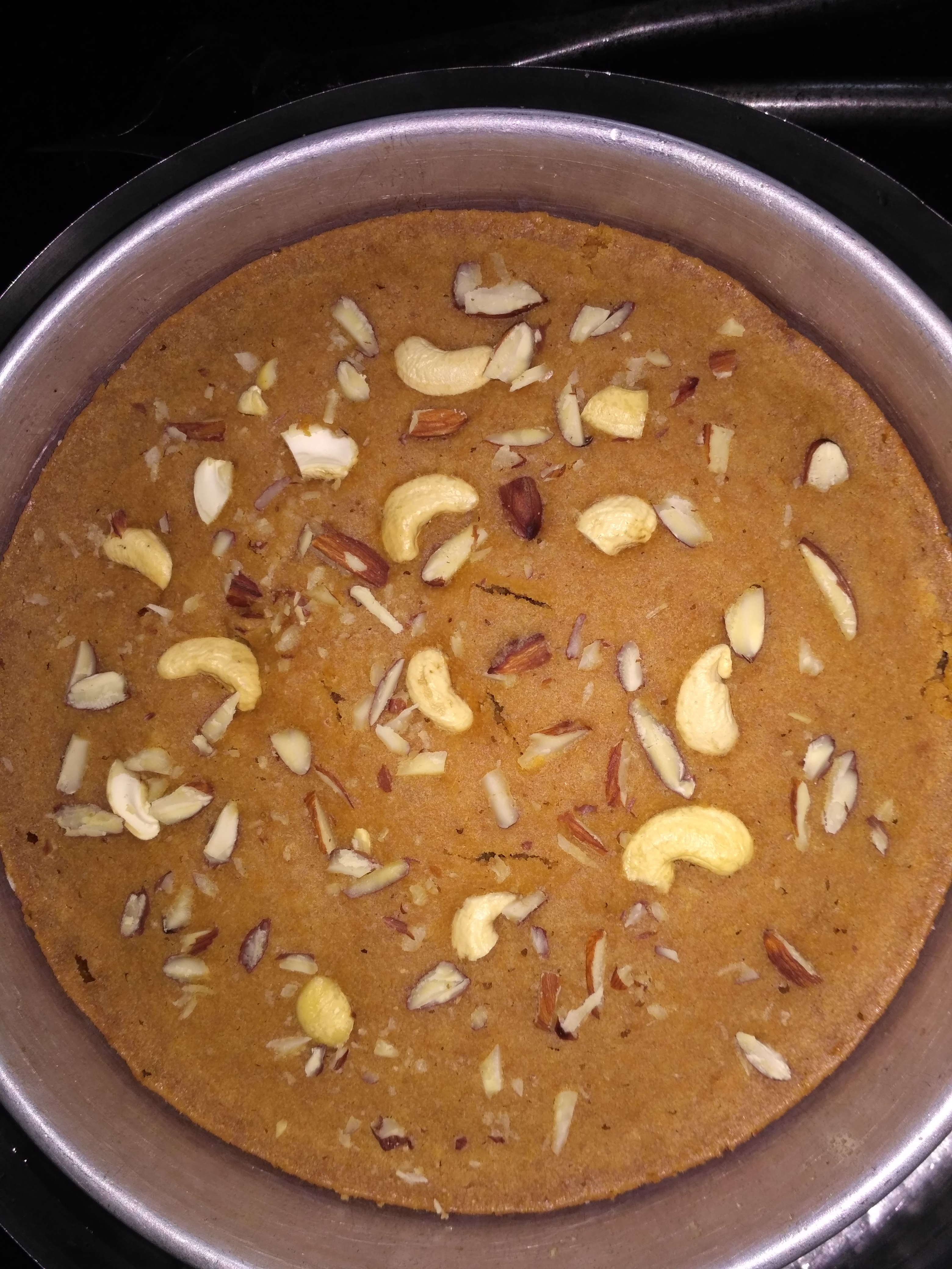 बिस्किटचा केक